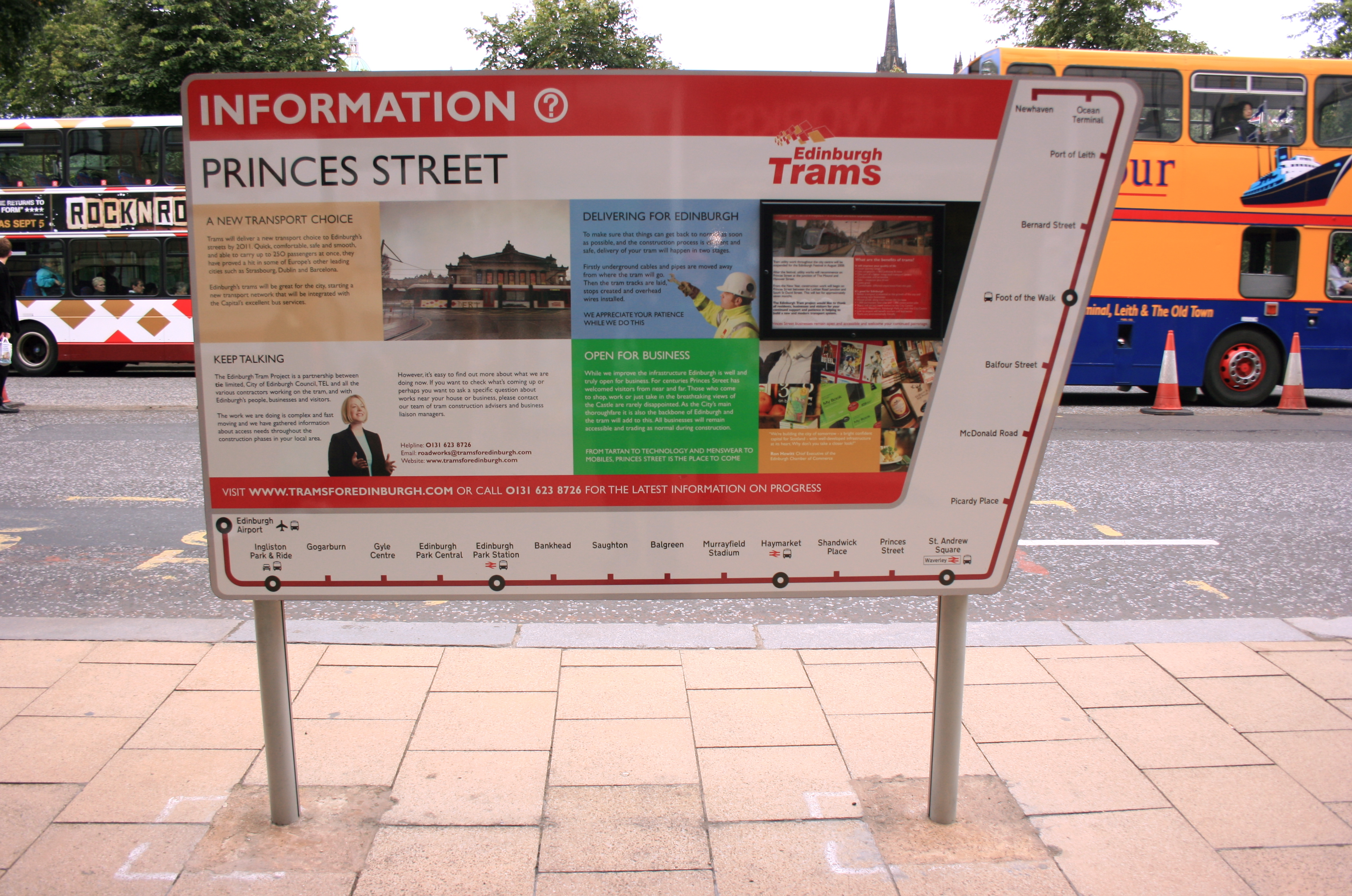 Edinburgh Tram Projekt Information